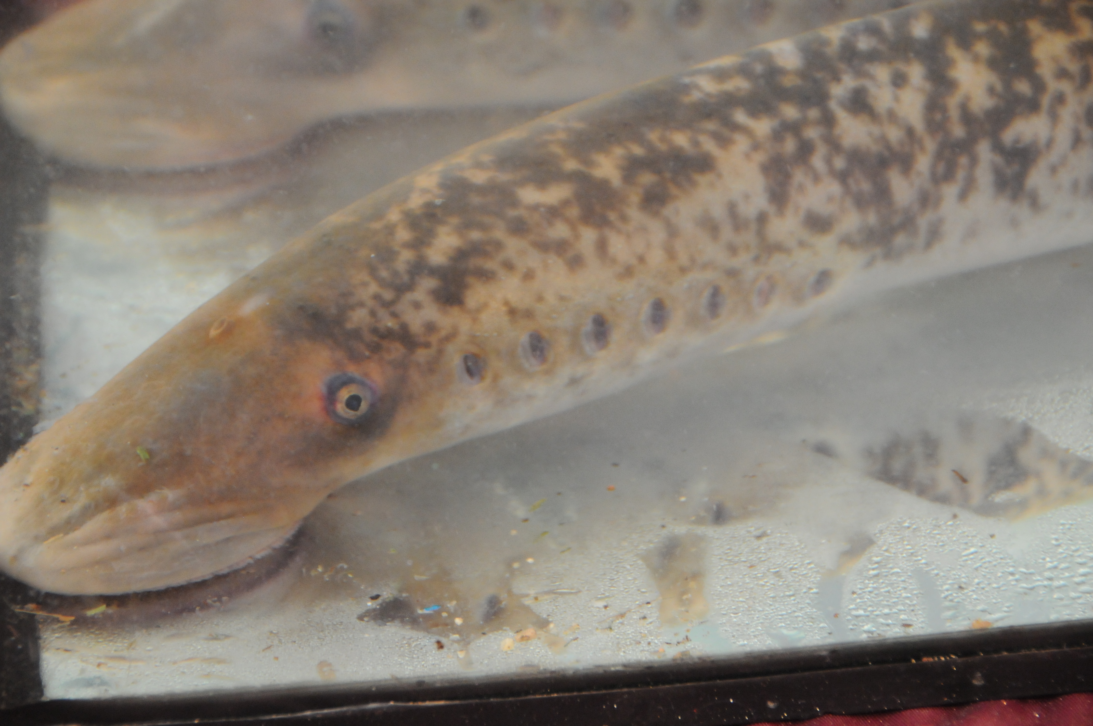 A Lamprey in a aquarium in, during the "Lamprey Party", in Arbo, Spain.